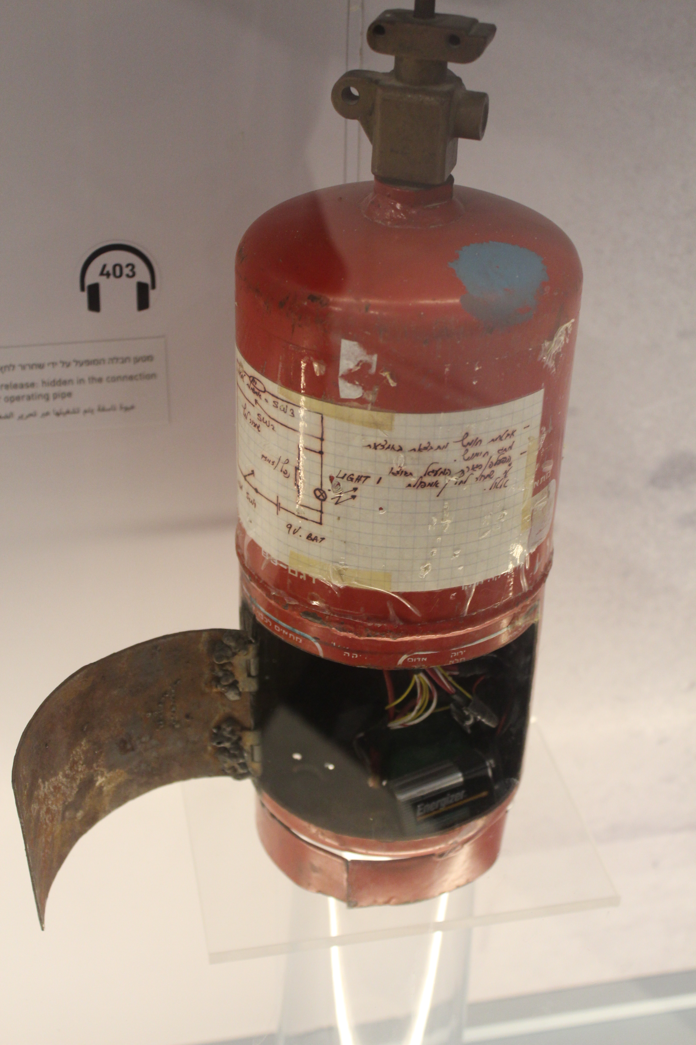 Exhibits at the Israeli Police Heritage Center in Bet Shemesh, Israel This image was taken as part of the Elef Millim project trip to the Israeli Police Heritage Center, in Beit Shemesh which was held on Friday, 24th February 2017. To view all images uploaded as part of the Elef Millim Project